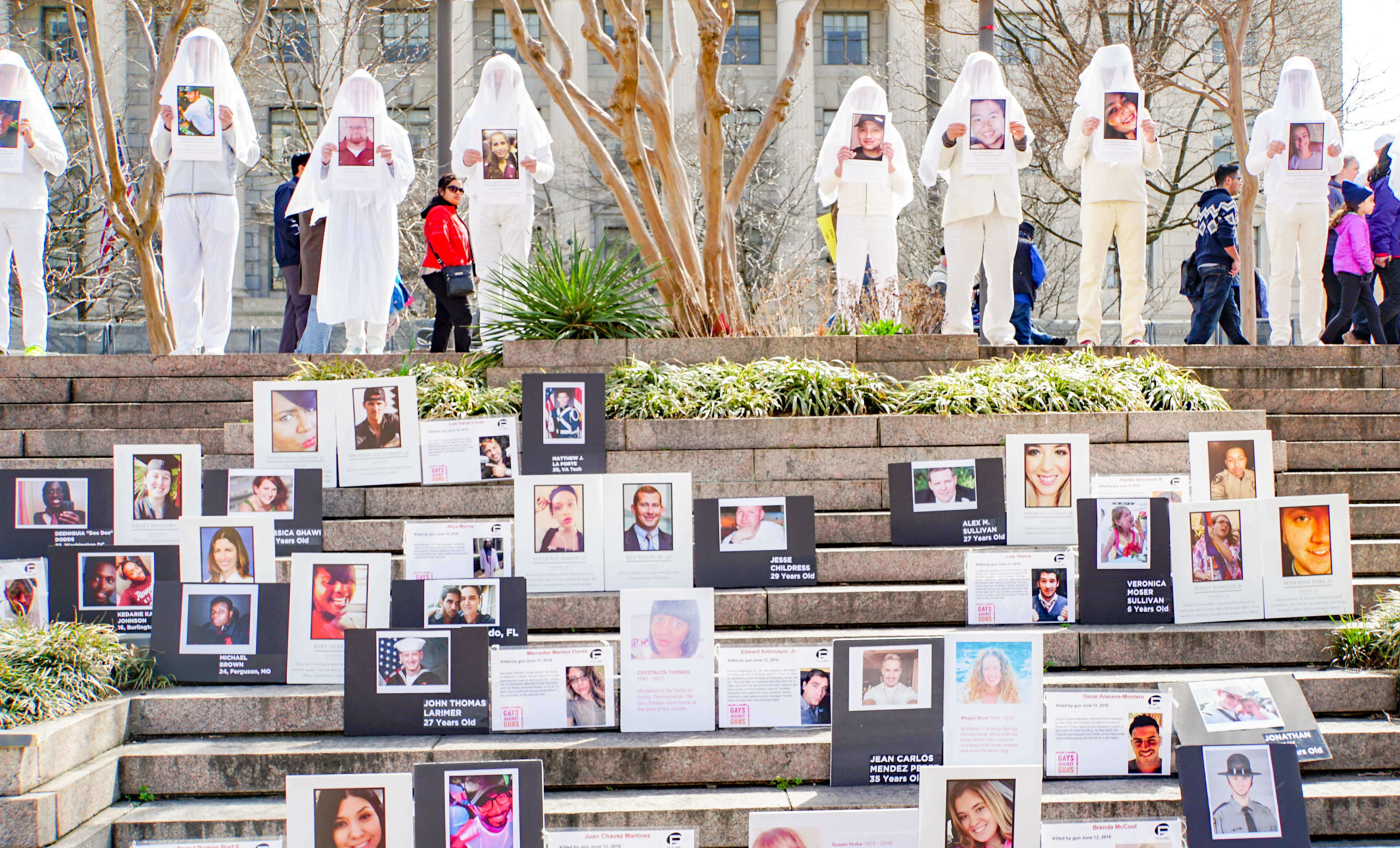 2018.03.24 March for Our Lives, Washington, DC USA 4616